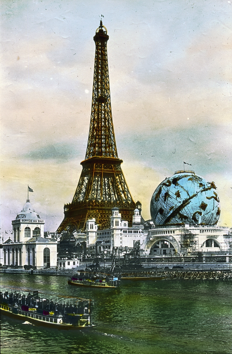 original descripton: Paris Exposition: Eiffel Tower and Celestial Globe, Paris, France, 1900. Eiffel Tower and Celestial Globe. Brooklyn Museum Archives, Goodyear Archival Collection (S03_06_01_015 image 1968). - Extra information: from left to right: Service des Eaux, Eiffel Tower, Maréorama, Globe céleste.